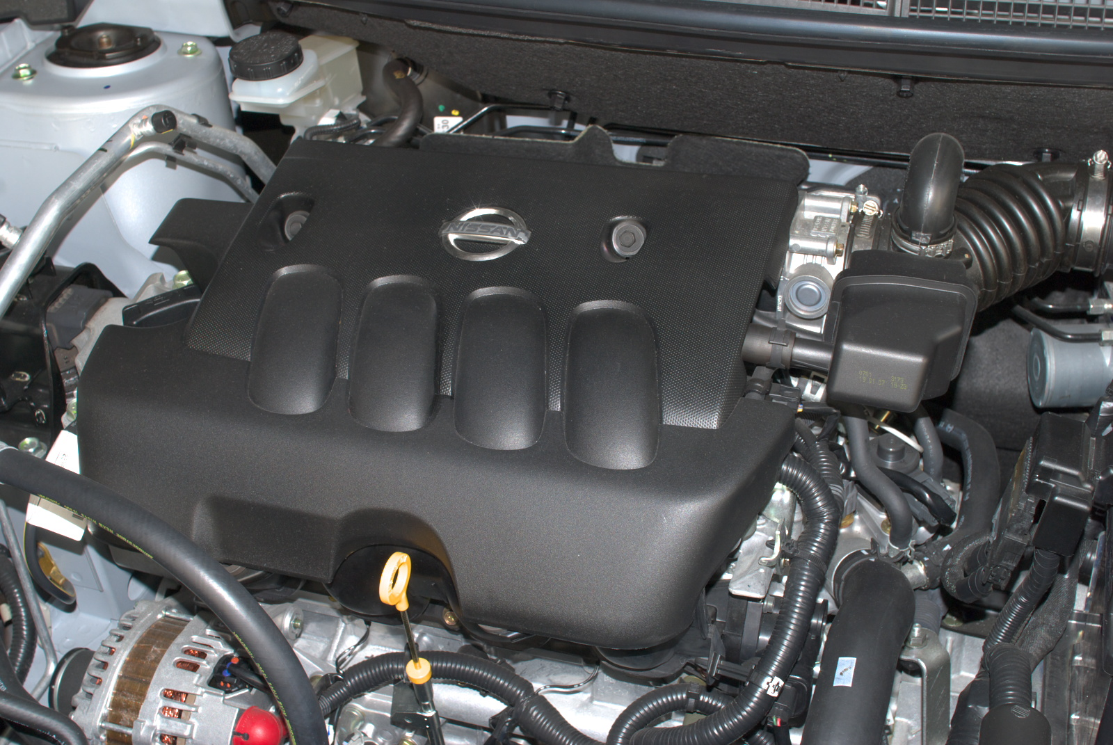 Nissan MR20DE 2.0L Straight-4 DOHC Engine on 2007 Nissan Dualis/Qashqai